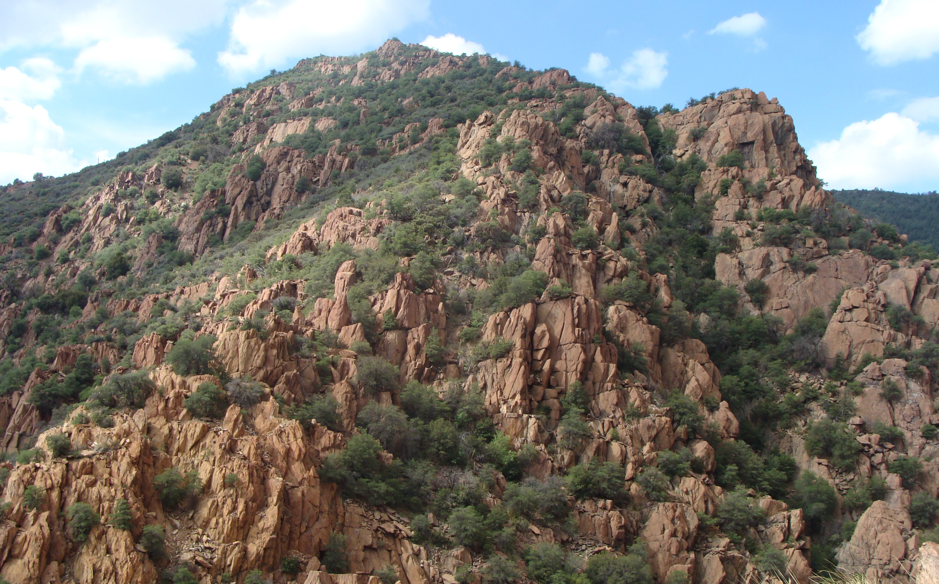 Mount Mingus. Northern slope as you approach from Highway 89A, immediately after leaving Jerome.